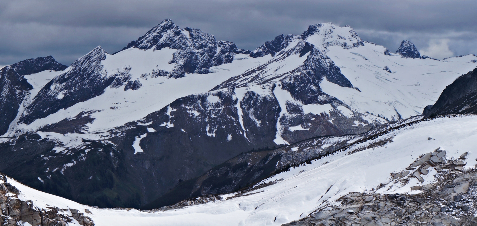 Luahna Peak from High Pass. Glacier Peak Wilderness, WA state